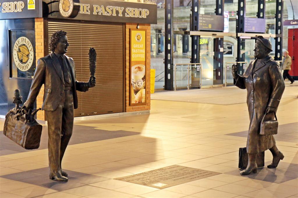 Doddy and Bessie, Liverpool Lime Street